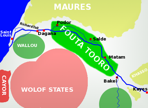 The states of the lower Senegal River valley (roughly), circa 1850, before the rise of Umar Tall